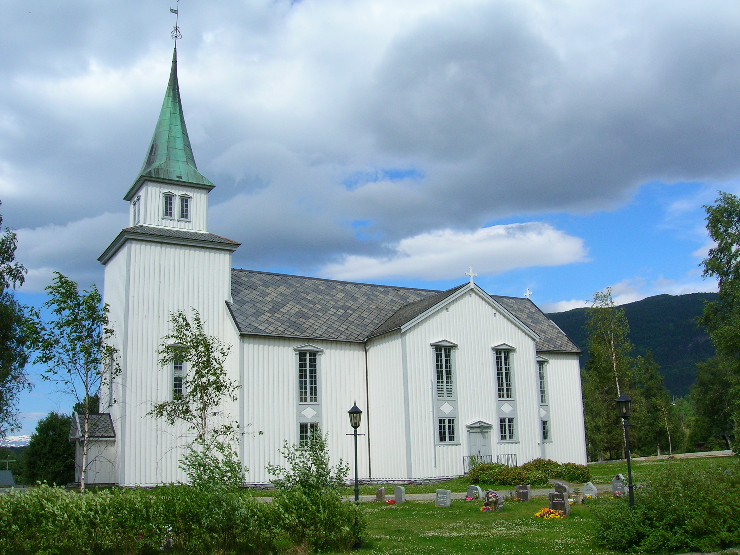 Korgen church, Hemnes municipality, Nordland, Norway, Photo July 8, 2007 with a Nikon Coolpix 5600 5,1 Megapixel camera.